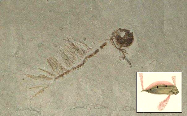 Fossil fish